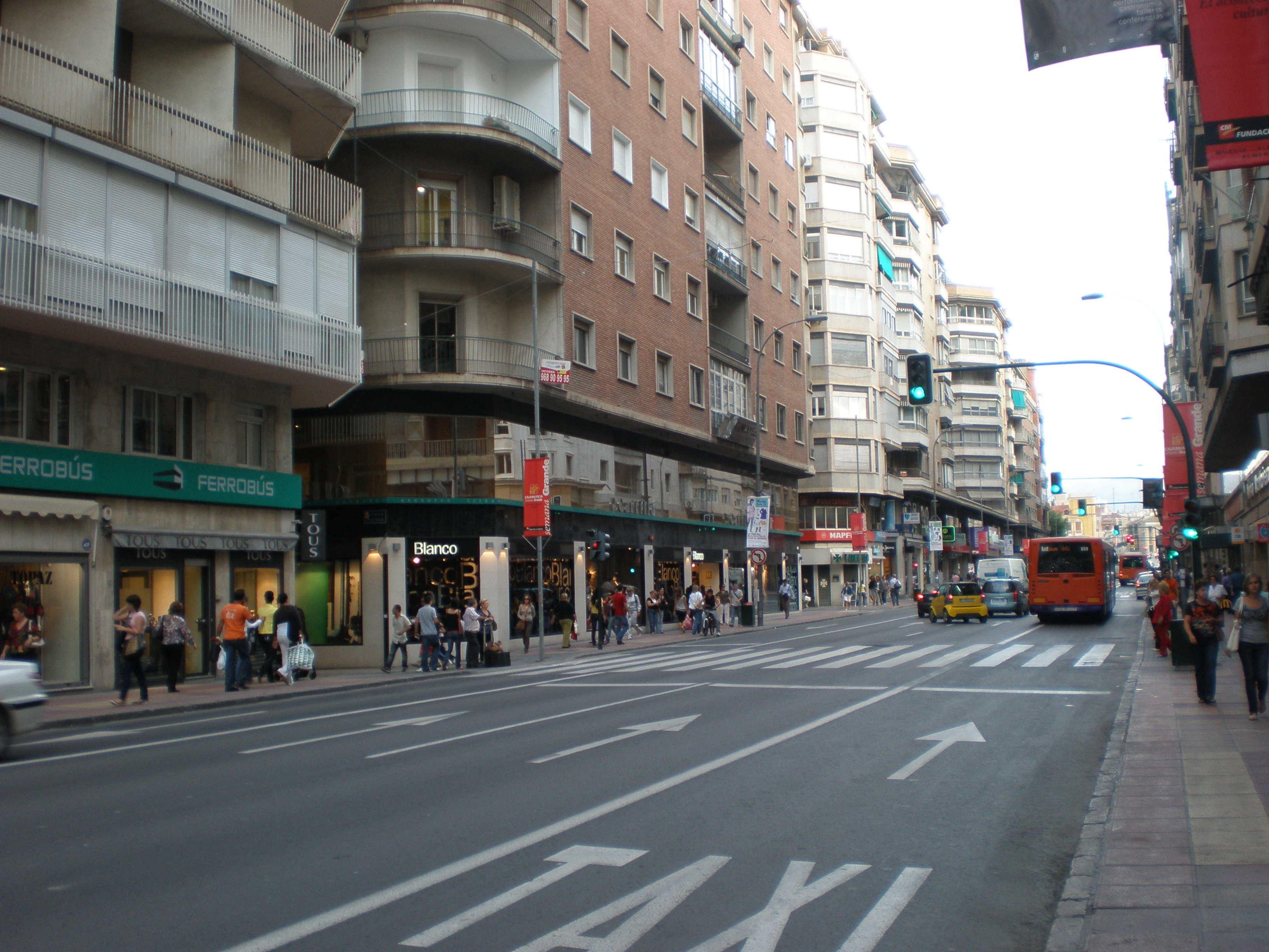 Murcia's Gran Via boulevard